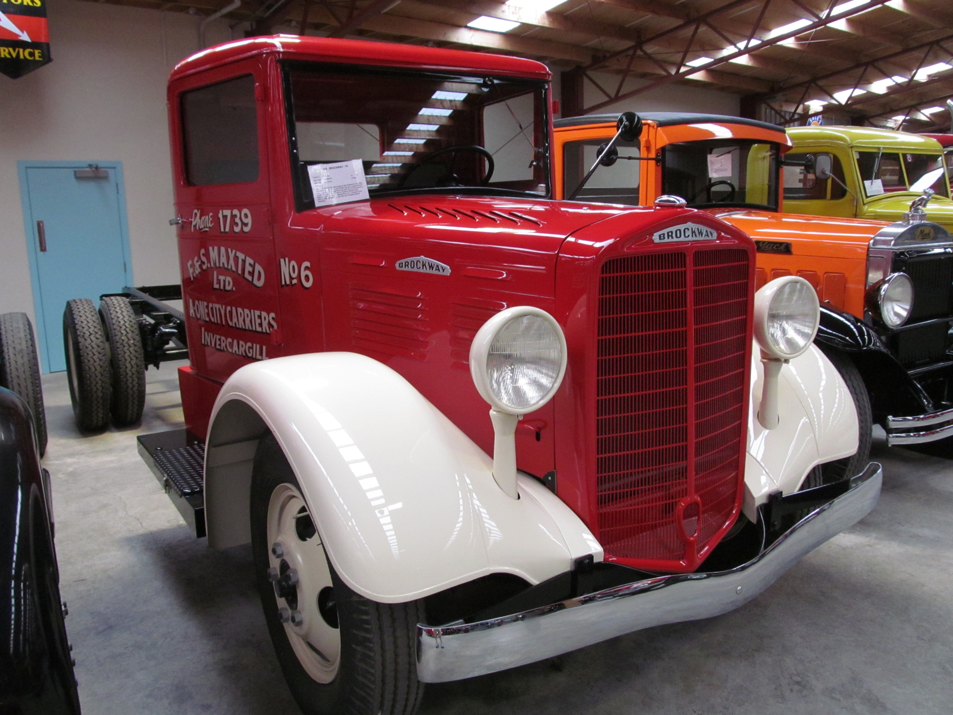 1945 Brockway 78. An extremely rare American truck.